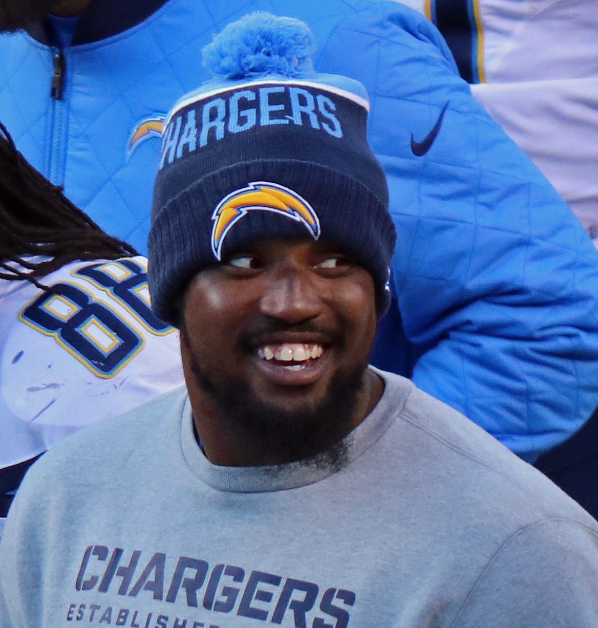 Kavell Conner, a player on the National Football League.